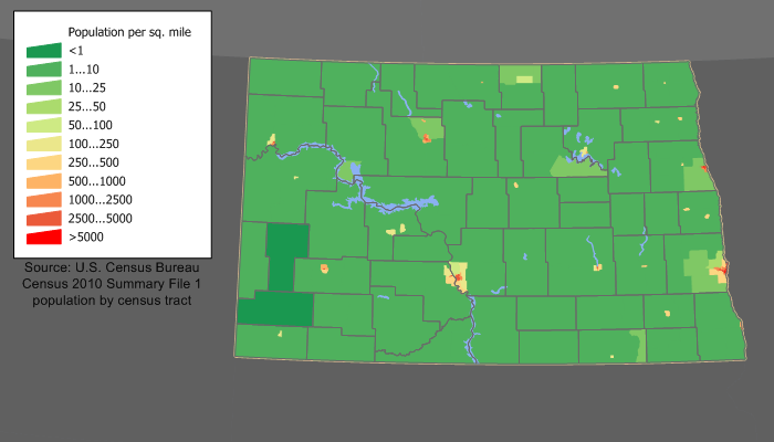 Category:U.S. State Population Maps Category:North Dakota maps North Dakota state population density map based on Census 2010 data. See the data lineage for a process description.